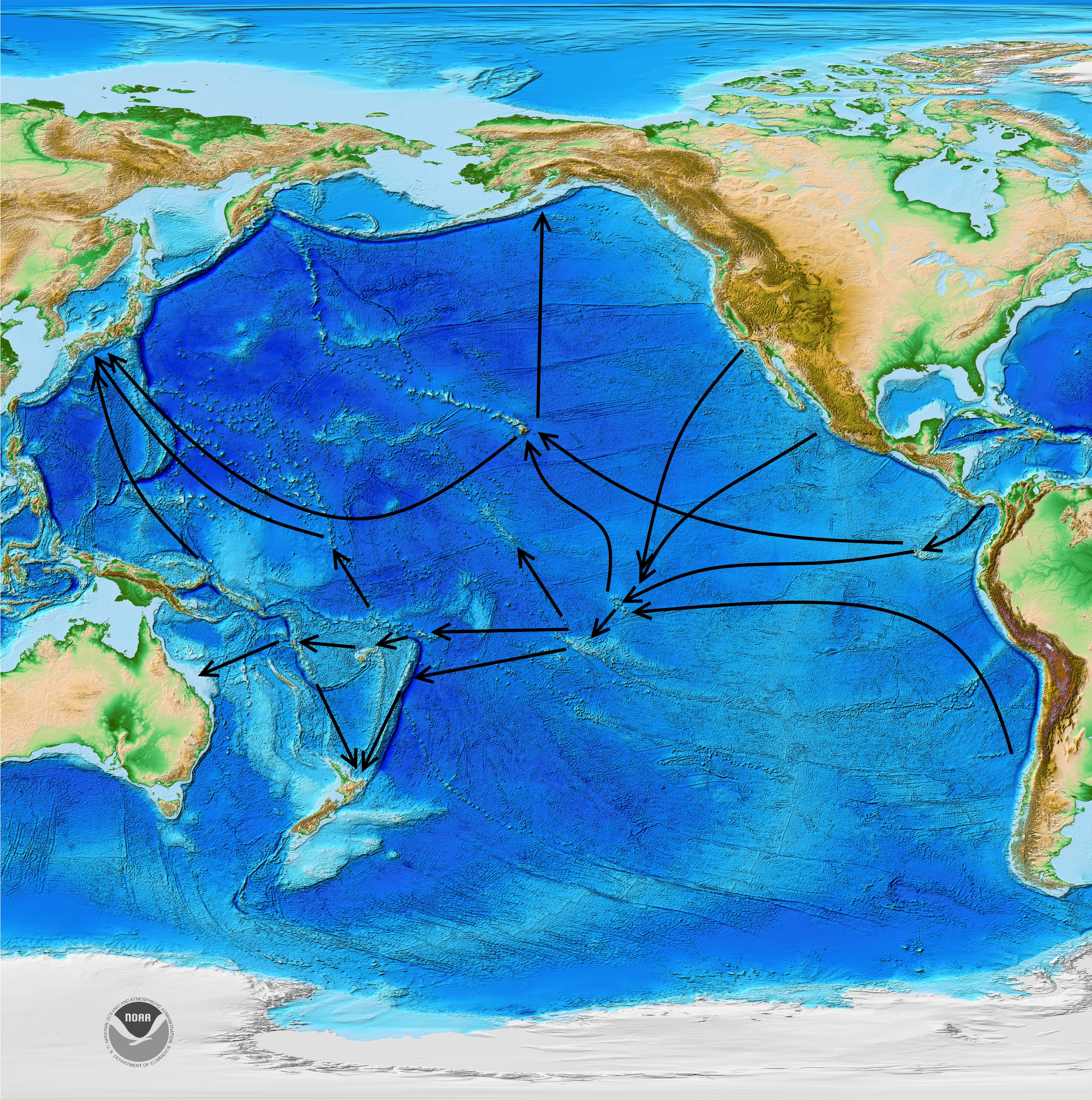 Preferred sailing routes across the Pacific Ocean, direction west